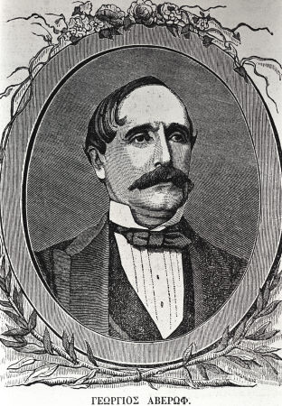 Georgios Averof (1818-1899): Greek businessman